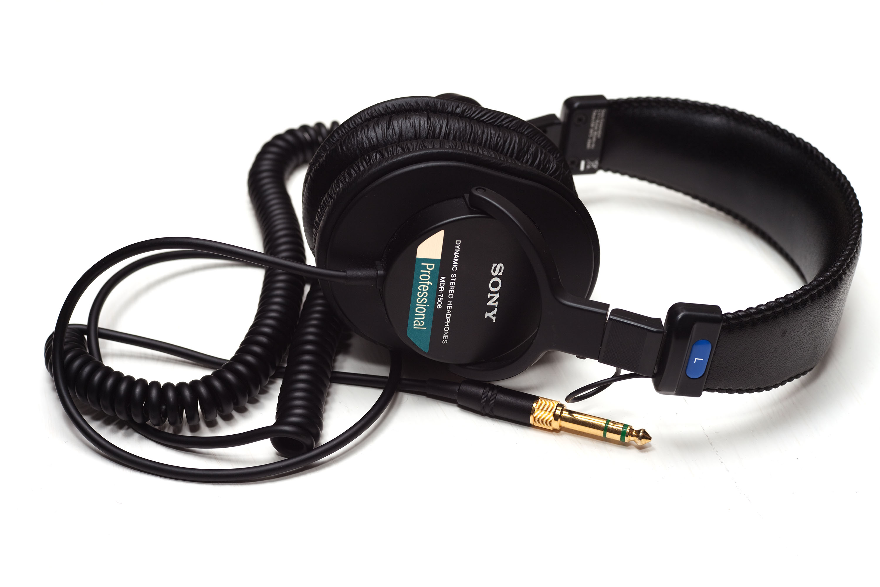 A pair of Sony MDR-7506 headphones.